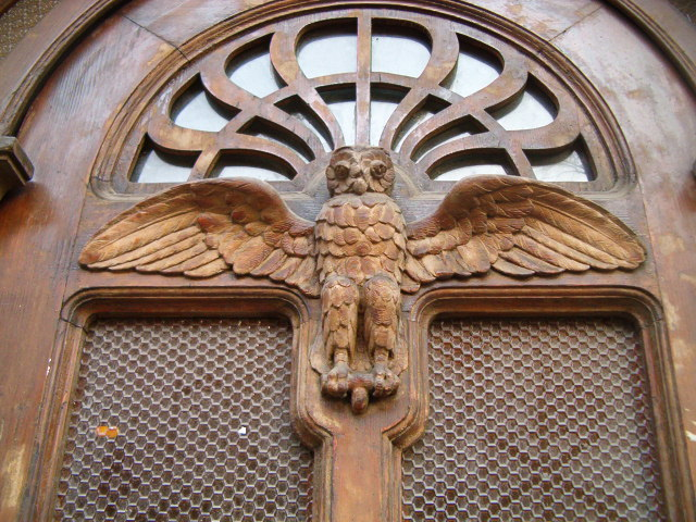 Toruń, Bydgoskie Przedmieście, door of house at 20 Konopnicka Str.